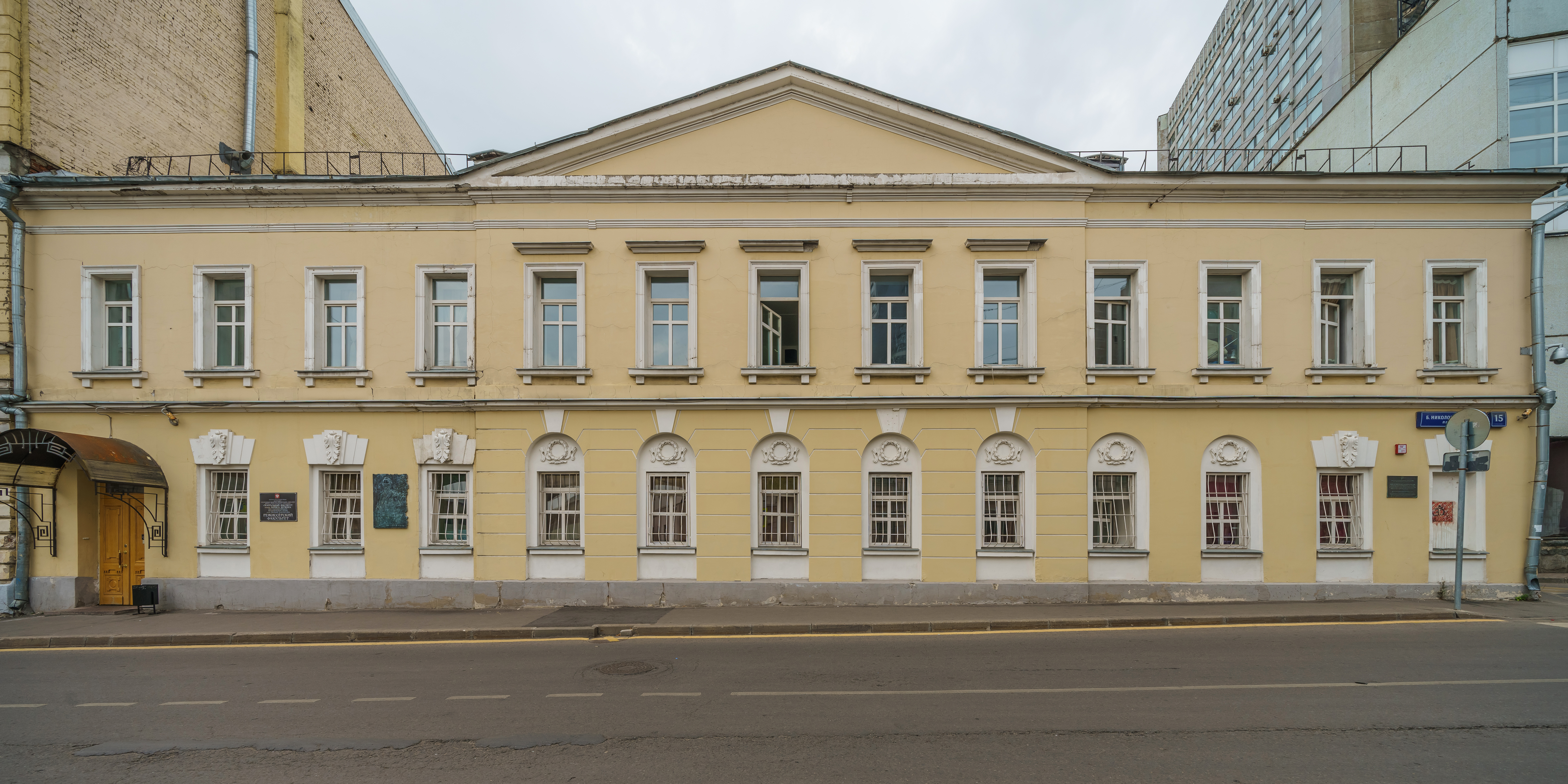 Building at Bolshoy Nikolopeskovsky Lane 15 in Moscow, Russia